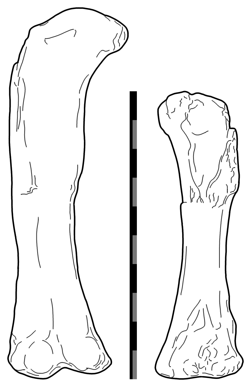 Holotype material of Aegyptosaurus, based on plates in Stromer 1932. Scale bar = 1 meter